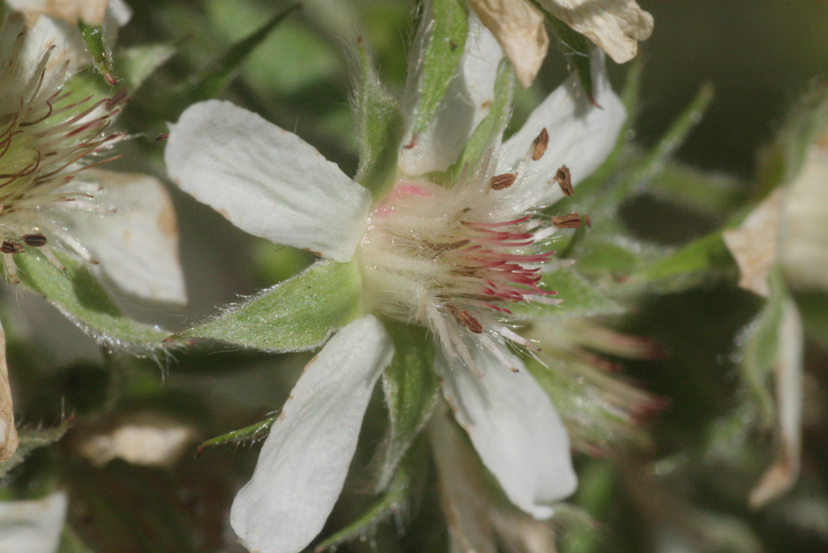 Potentilla caulescens